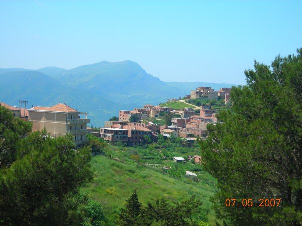 Mountains from Village